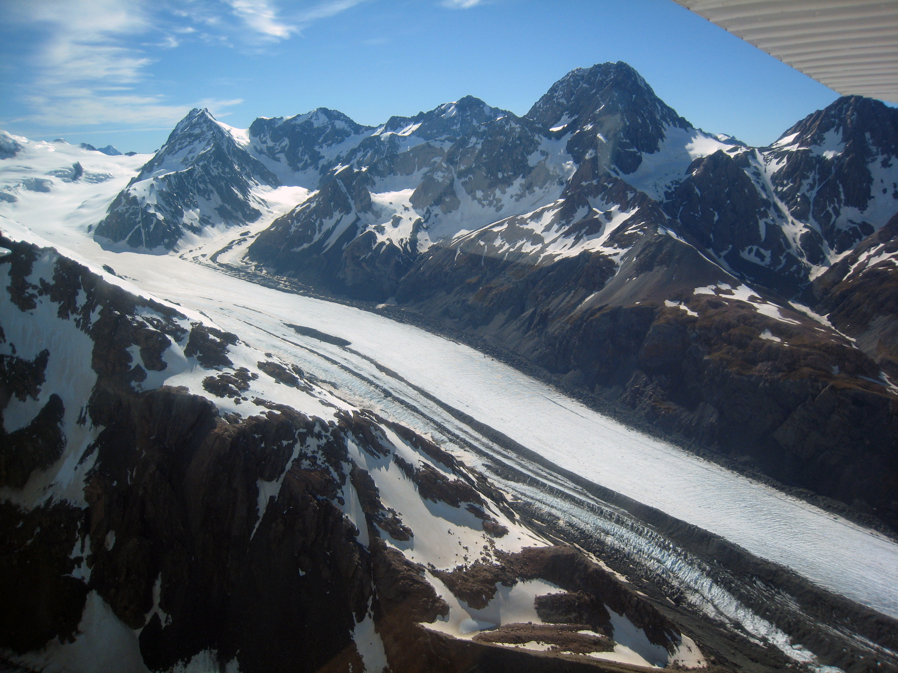 Aerial view of the upper half of the Tasman Glacier, in New Zealand's Aoraki/Mount Cook National Park. The plane's wing is visible in the upper right corner.